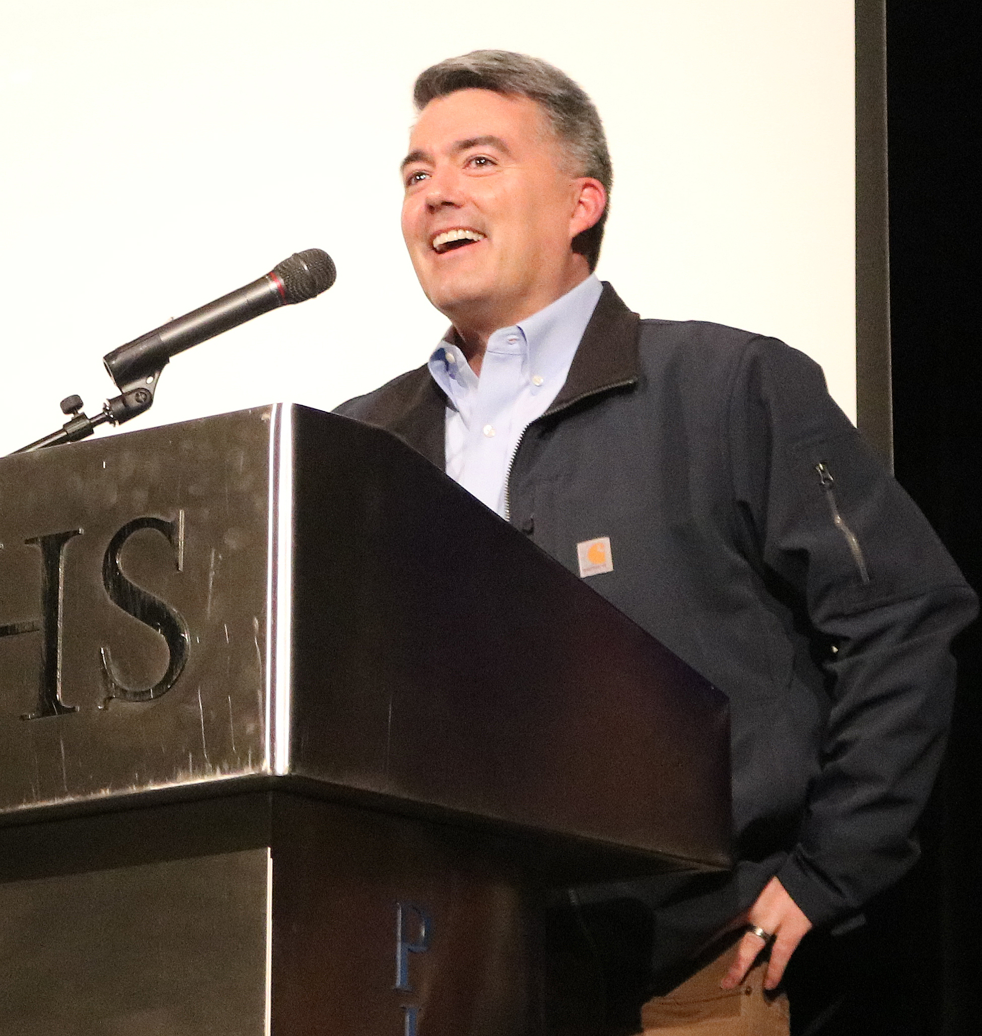 Cory Gardner addressing an audience in Englewood, Colorado on March 30, 2019.